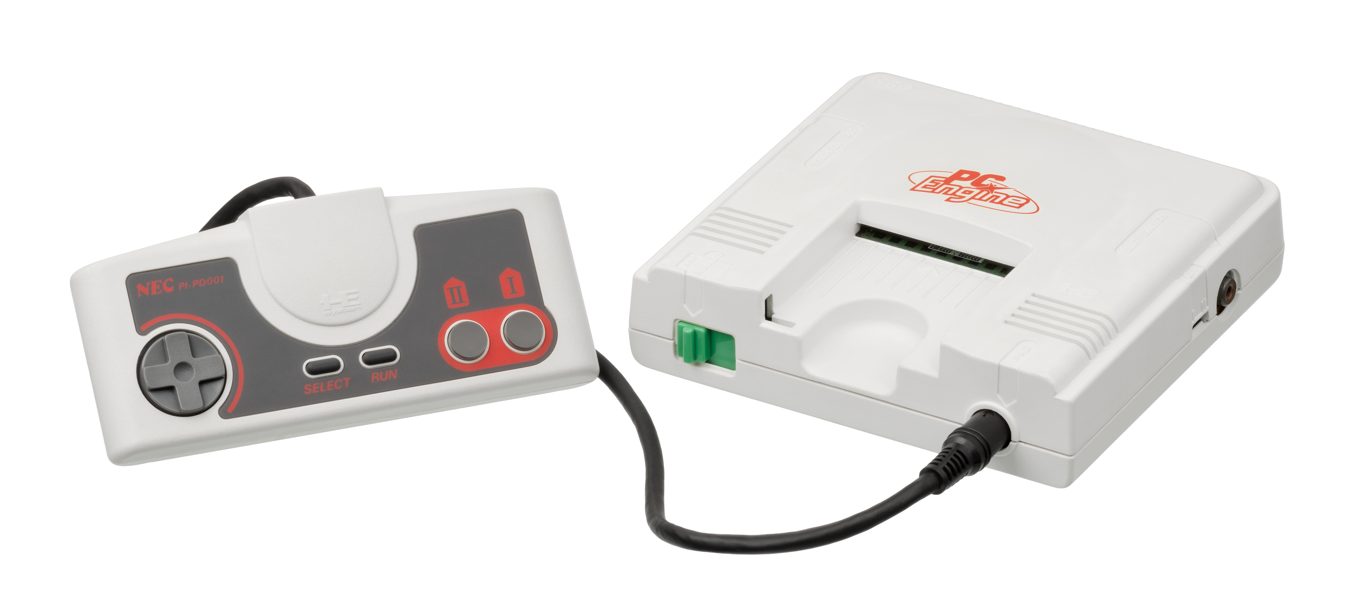 The PC Engine video game console, shown with controller. Released in 1987 in Japan, this console was produced in a joint venture between the electronics company NEC and the gaming software company Hudson Soft. The PC Engine would later be brought to North America and Europe as the rebranded and redesigned TurboGrafx-16 in 1989.